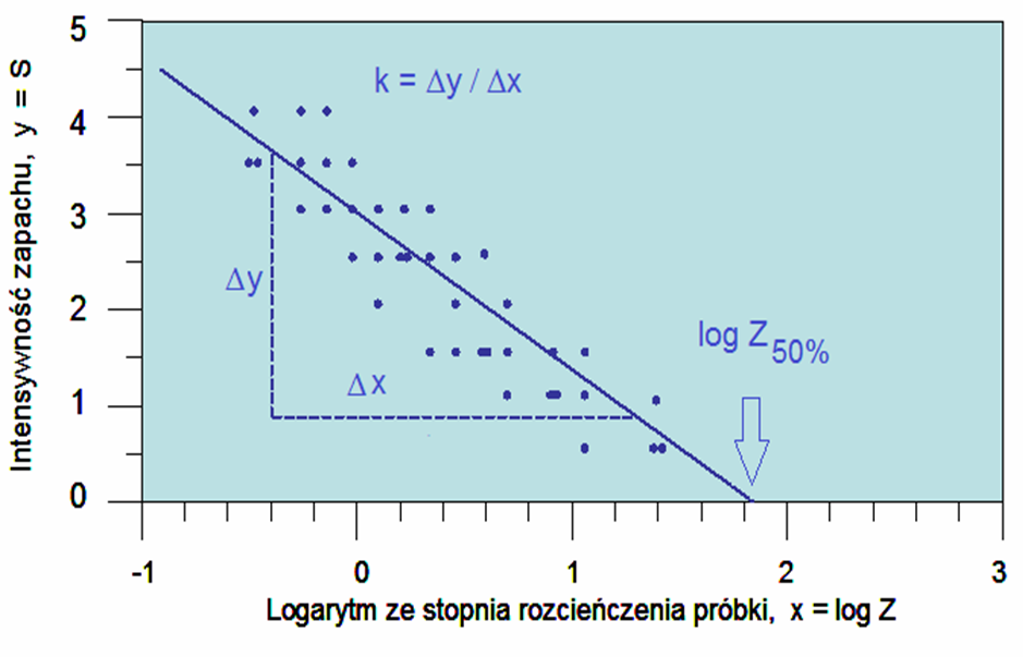 Odour Intensity - Weber-Fechner Law